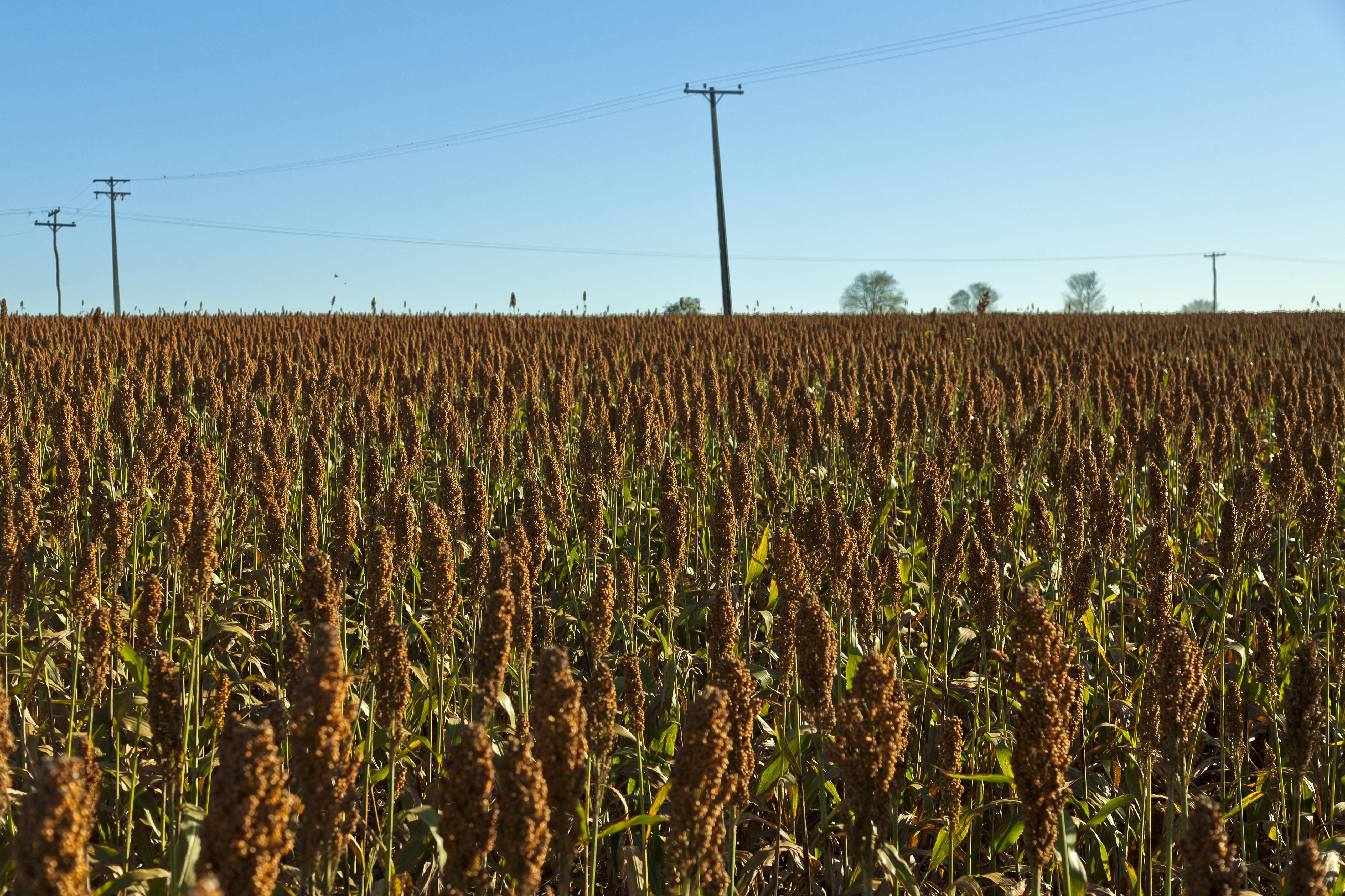 Sorghum has been, for centuries, one of the most important staple foods for millions of poor rural people in the semiarid tropics of Asia and Africa. For some impoverished regions of the world, sorghum remains a principal source of energy, protein, vitamins and minerals. Sorghum grows in harsh environments where other crops do not grow well, just like other staple foods, such as cassava, that are common in impoverished regions of the world. It is usually grown without application of any fertilizers or other inputs by a multitude of small-holder farmers in many countries.